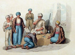 Jezzar Pasha condemning a criminal